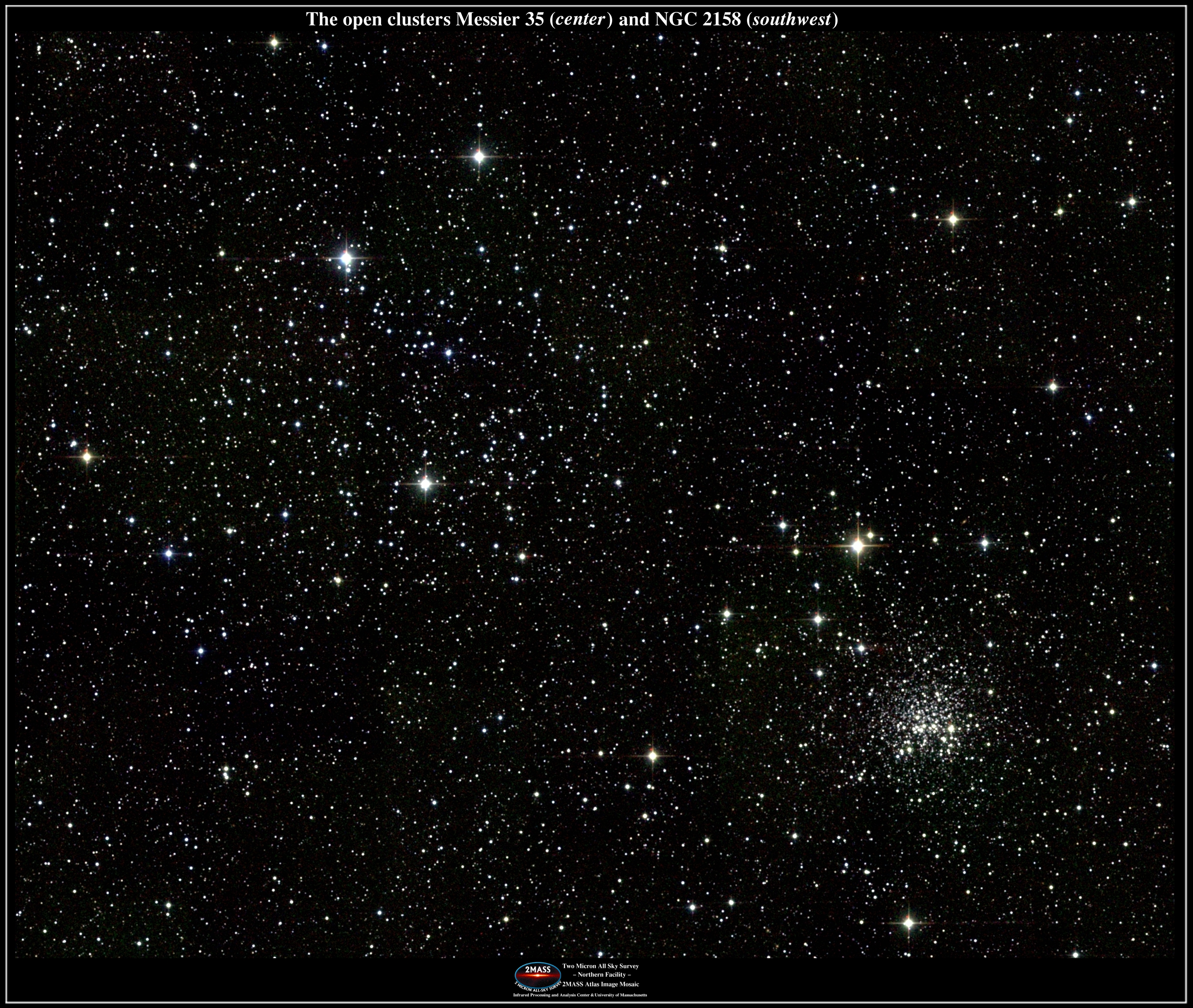 The open clusters Messier 35 (center) and NGC 2158 (southwest)